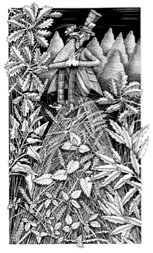 ‘Uncle Arly’ by John Vernon Lord, The Nonsense Verse of Edward Lear, Jonathan Cape, 1984.